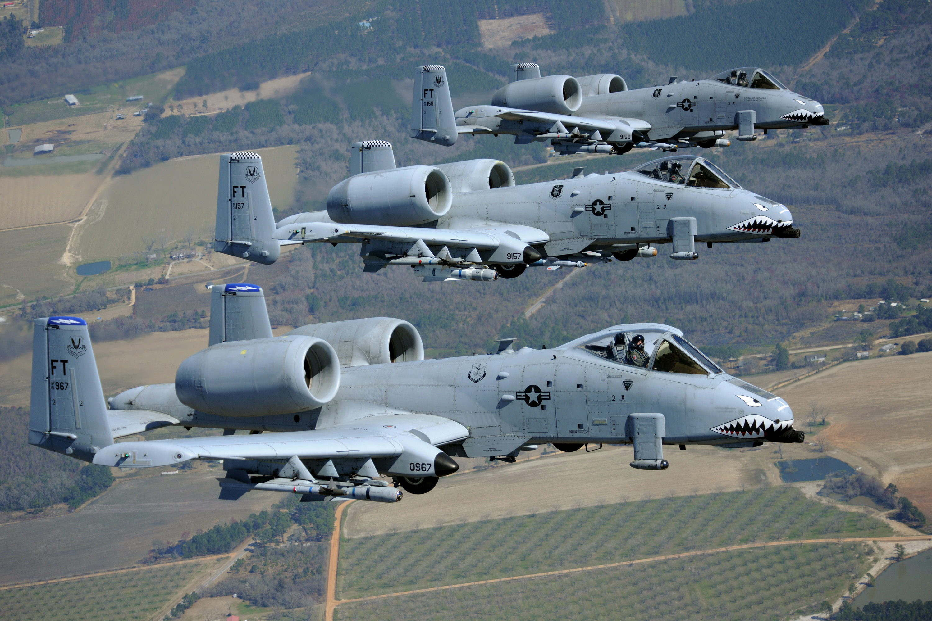 Three A-10C Thunderbolt II aircraft from the 74th and 75th Fighter Squadrons out of Moody Air Force Base, Ga., fly in formation during a training session here March 16, 2010. These A-10 pilots flew in several different formations and also shot flares during their training. (U.S. Air Force photo by Airman 1st Class Benjamin Wiseman)